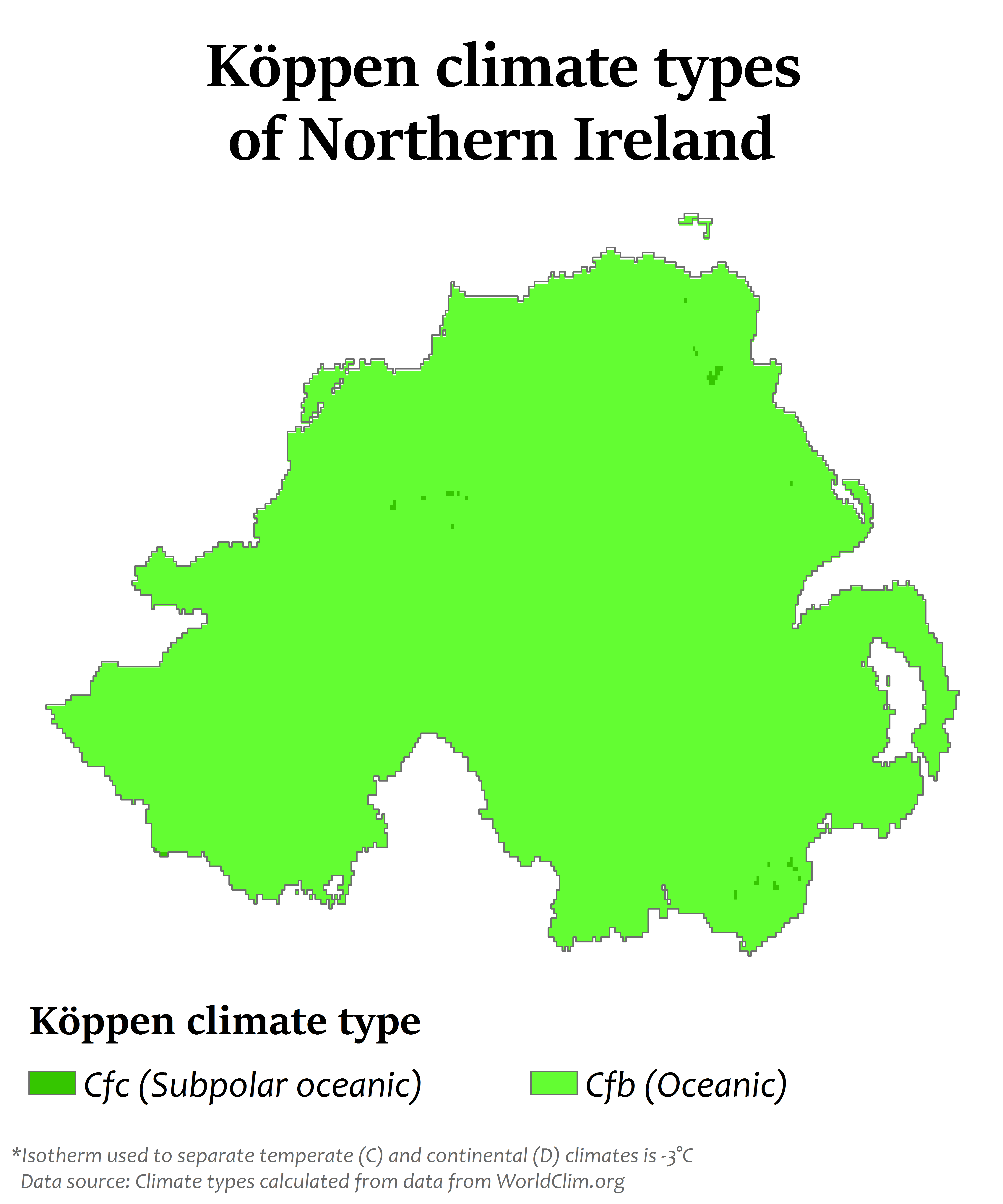 A map of Köppen climate types in Northern Ireland